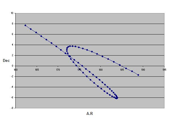 Apparent trajectory of the planet Mercury retrograde between August 15, 2009 and September 15, 2009